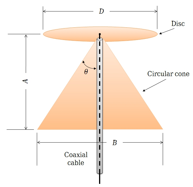 Discone antenna principle.